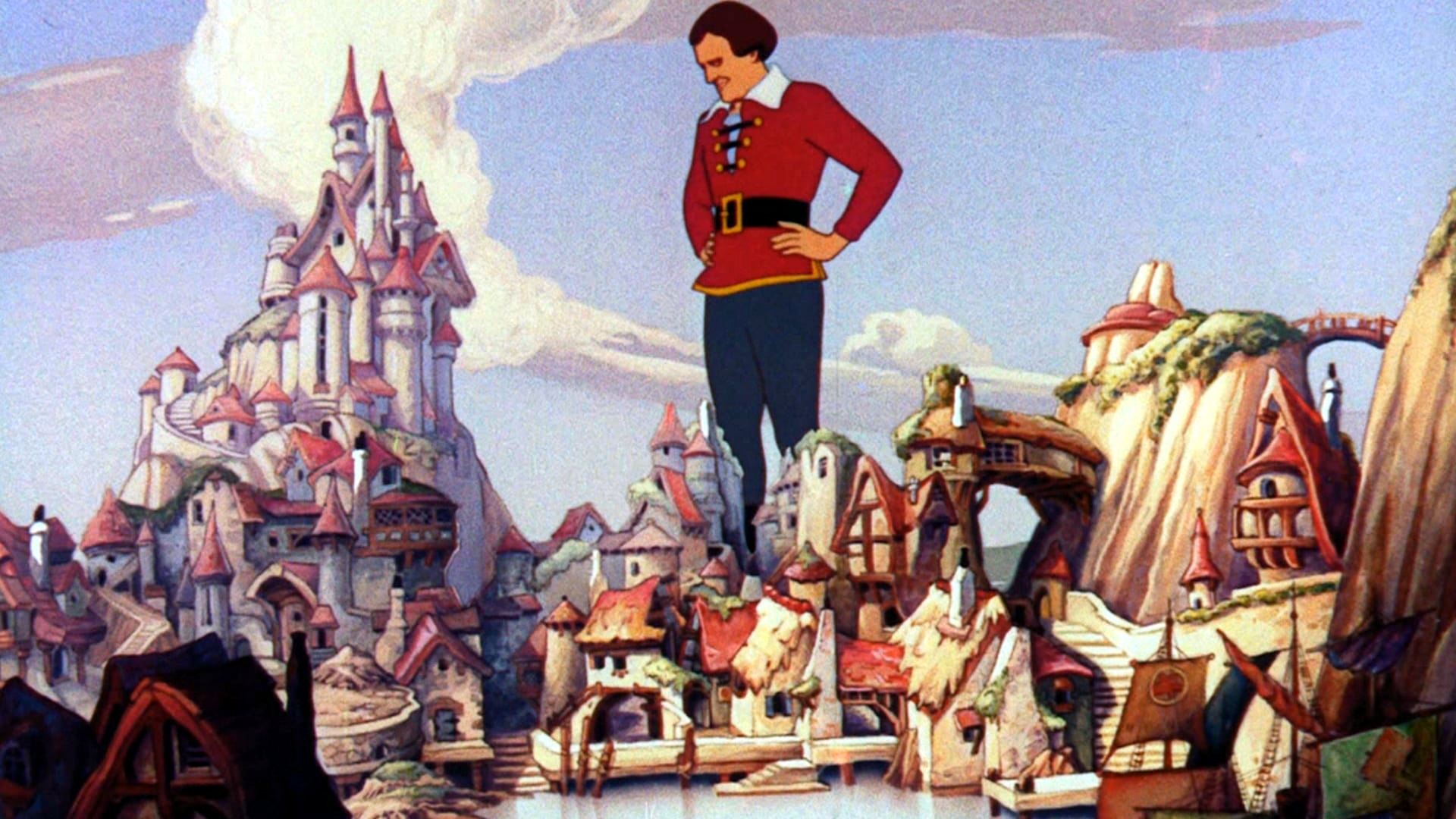 Screencap from the animated feature Gulliver's Travels, produced by Max Fleischer (1883–1972) DescriptionPolish-American screenwriter, film producer, film director, animator and inventorDate of birth/death 19 July 1883 11 September 1972Location of birth/death Kraków Woodland HillsAuthority control : Q93788 VIAF: 10821 ISNI: 0000 0001 1557 6975 ULAN: 500118612 LCCN: n85248141 Open Library: OL445484A WorldCat creator QS:P170,Q93788 Creator:David Fleischer in 1939. Copyright Report filed by the Library of Congress in 1974 states that no renewal was found for this film. Image is therefore assumed to be in the public domain.